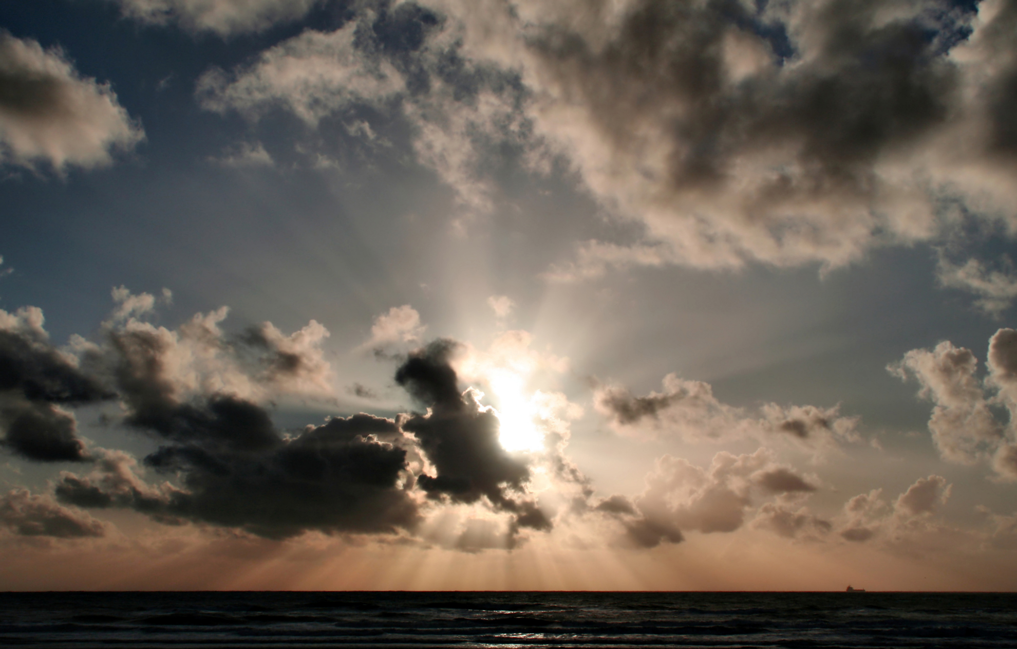 Crepuscular Rays and clouds over Pacific.